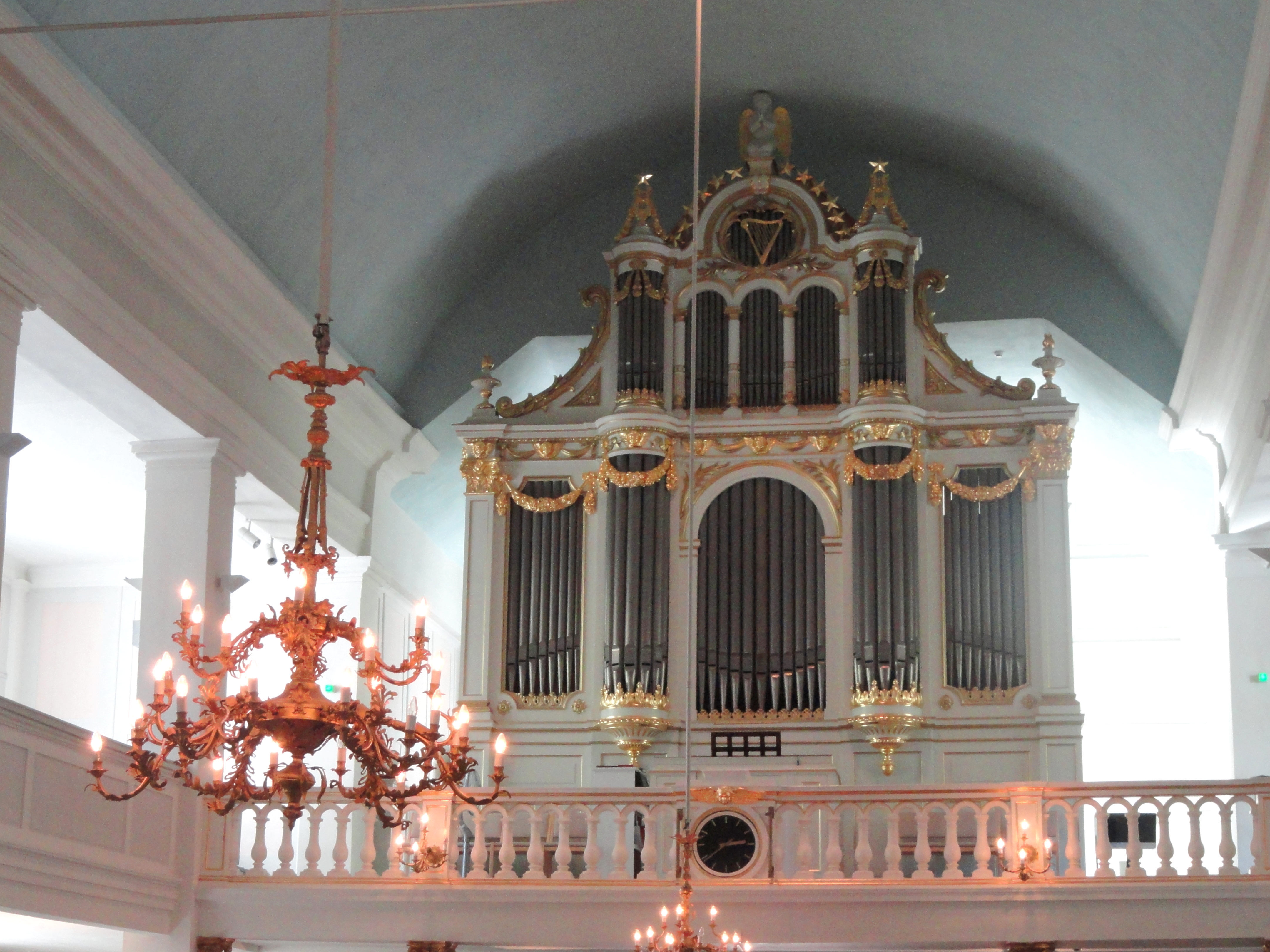 Helsinki Old Church, Helsinki, Finland.